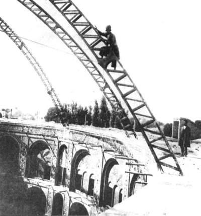 Tekyeh Dowlat